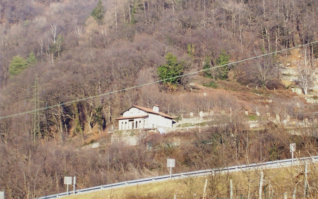 Little sanctuary of the Addolorata, Nadro, Val Camonica, Italia